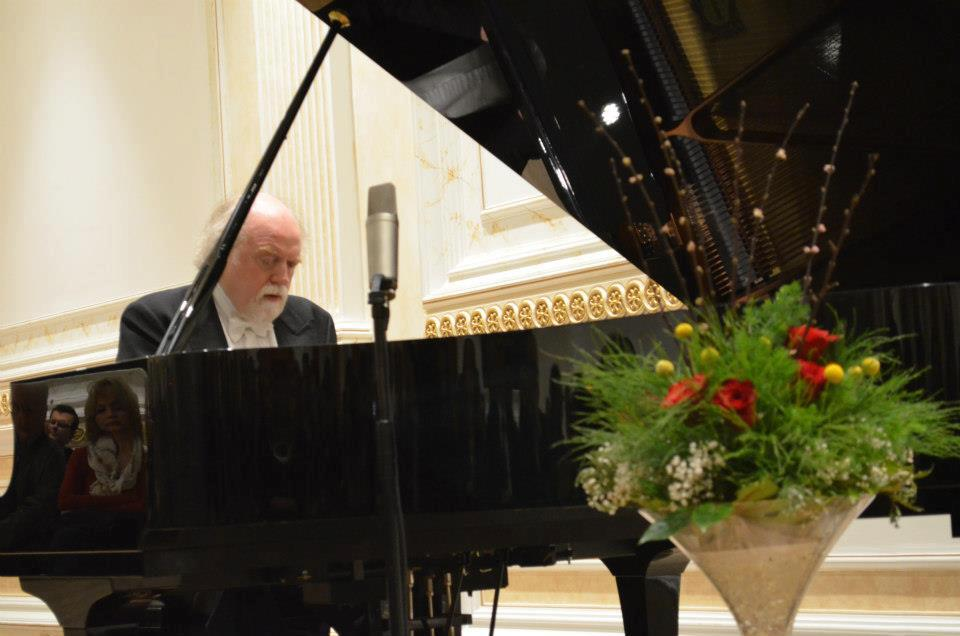 Peter Donohoe plays in 'Diar Hall' on April 15, 2013.